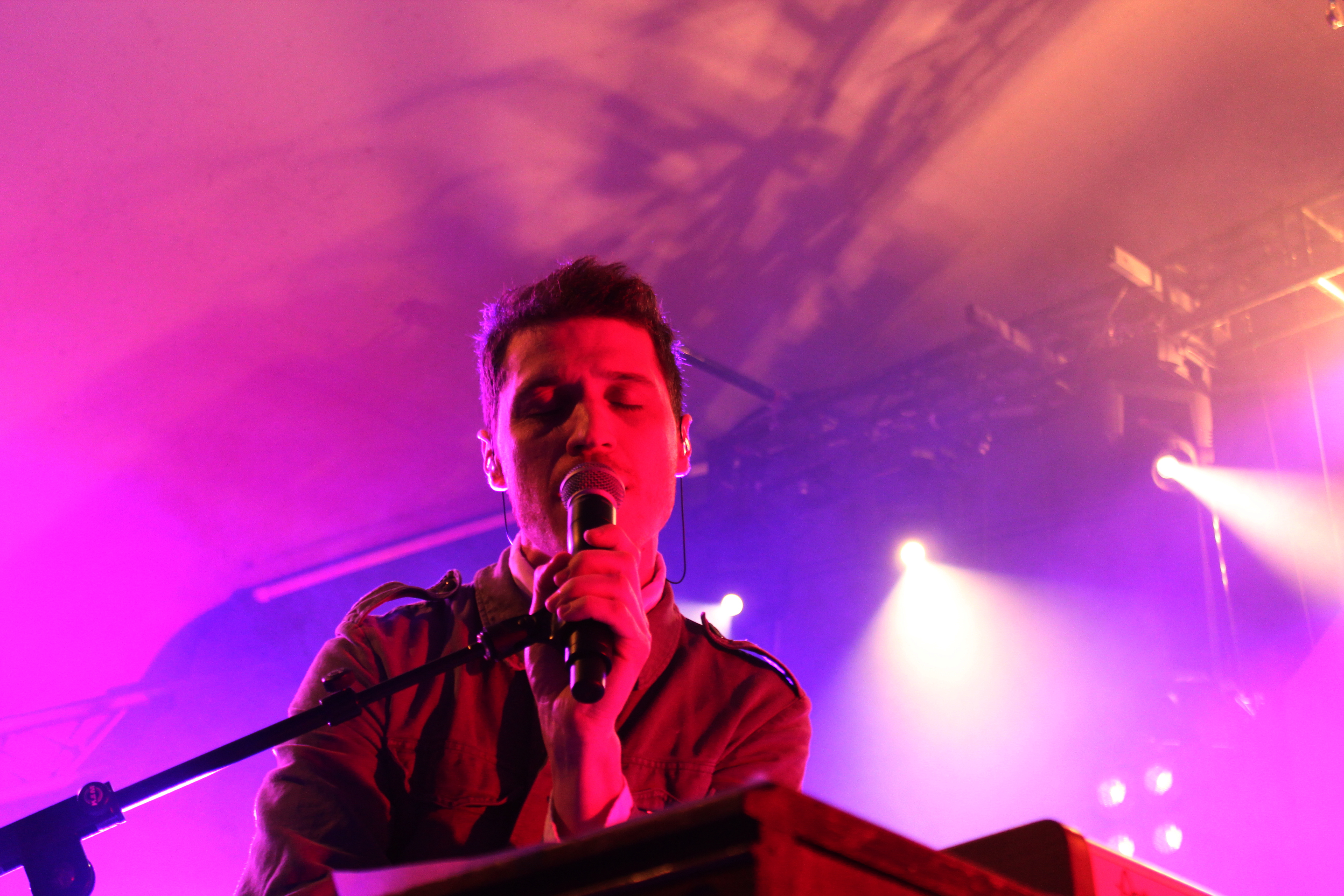 Mutemath performing on January 27, 2012 in Austin, Texas.